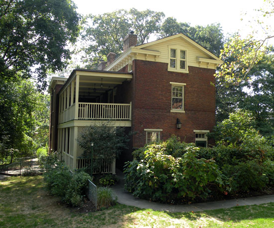 Picture of the Bigham House located at 655 Pennridge Road in Chatham Village, in the Mount Washington neighborhood of Pittsburgh, Pennsylvania. Built in 1844, it was the former house of abolitionist lawyer Thomas James Bigham (1810-1884), and was "purportedly a station on the Underground Railroad". [1] These days, the house is part of Chatham Village and is used as a community clubhouse known as Chatham Hall. Chatham Village is on the National Register of Historic Places and is a National Landmark District, and this house is individually listed on the List of Pittsburgh History and Landmarks Foundation Historic Landmarks. Architectural style: Classical Revival.